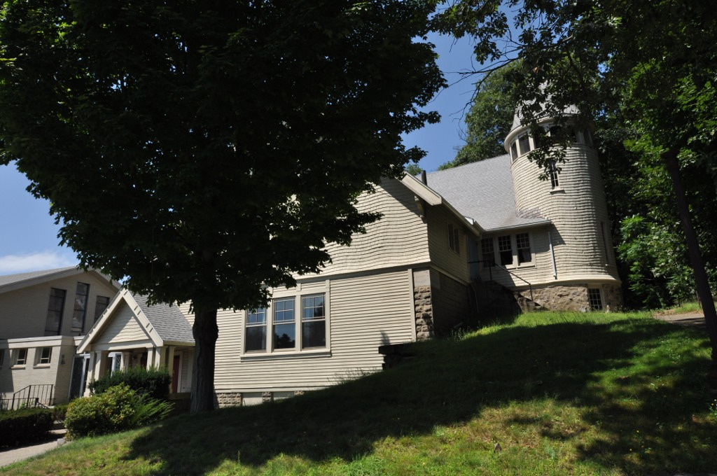 The 1884 section of the Greenwood Union Church, Wakefield, MA